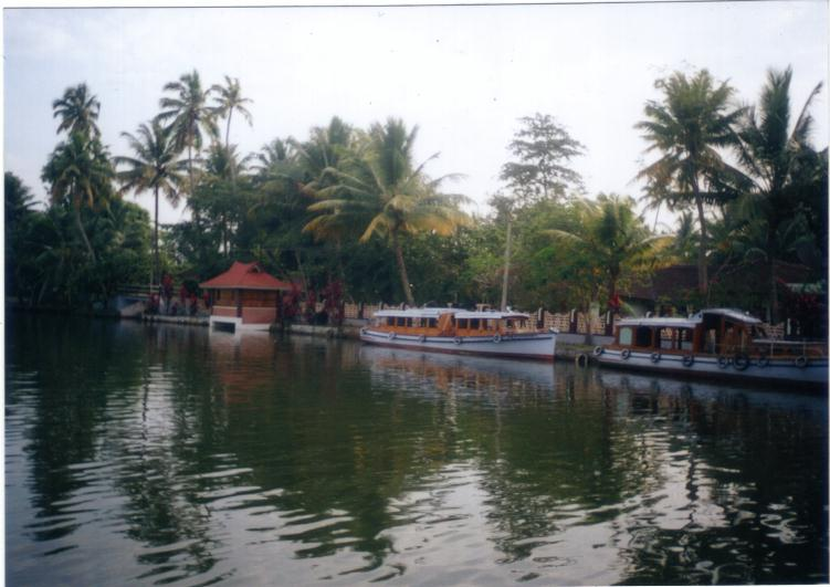 A picture taken by me in 2001 - while "roaming around" in Kerala Backwaters on a moving Kettuvallam. --Bhadani 13:21, 24 September 2005 (UTC)